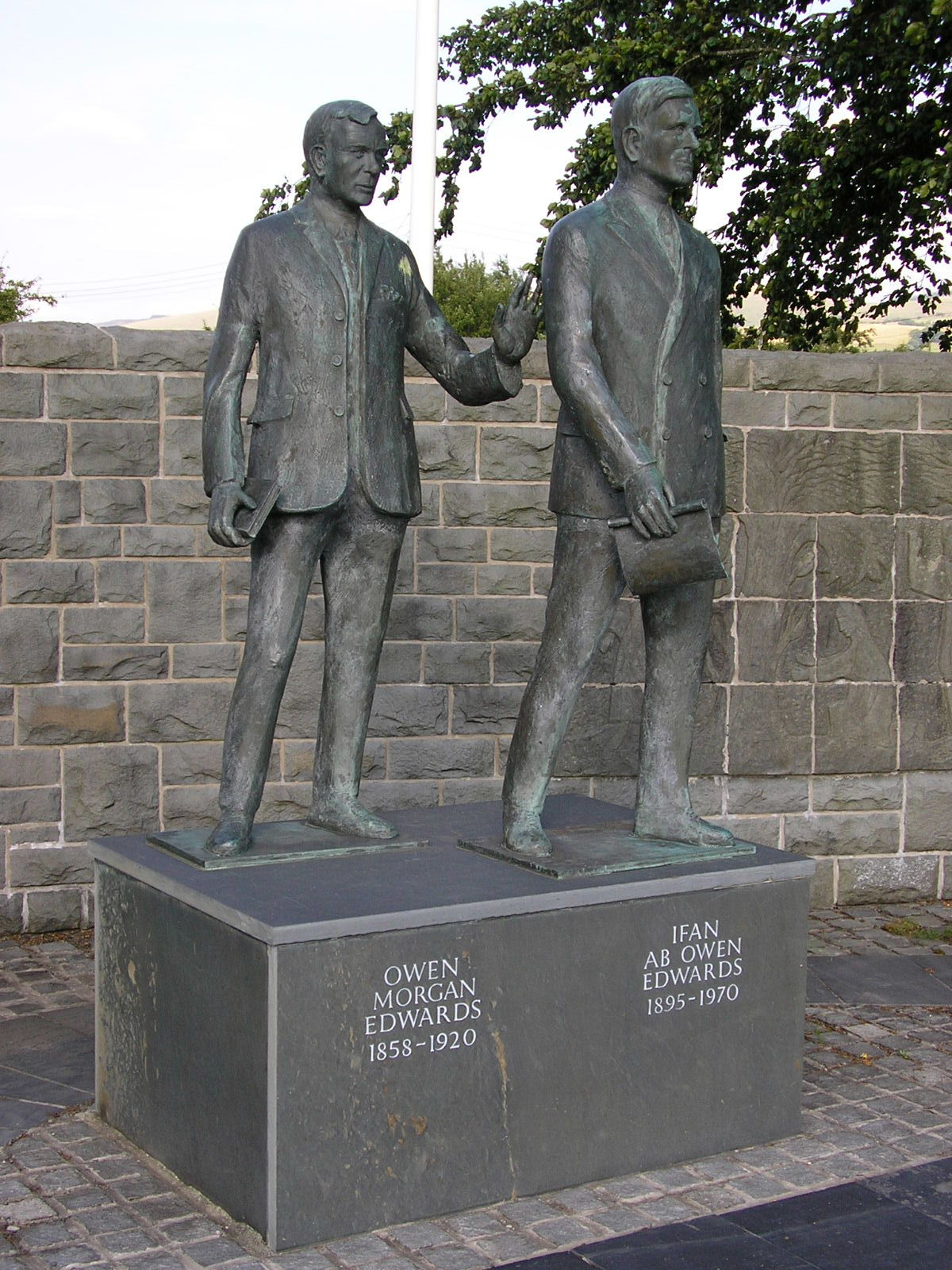 Statue of Owen Morgan Edwards, Welsh man of letters and his son Ifan ab Owen Edwards in Llanuwchllyn.